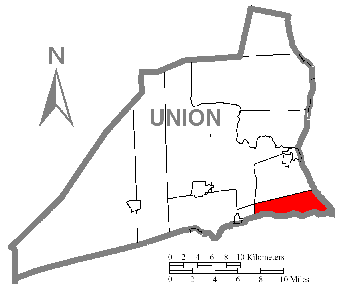 A map of Union County showing Union Township, Pennsylvania (alternate) highlighted on the map.